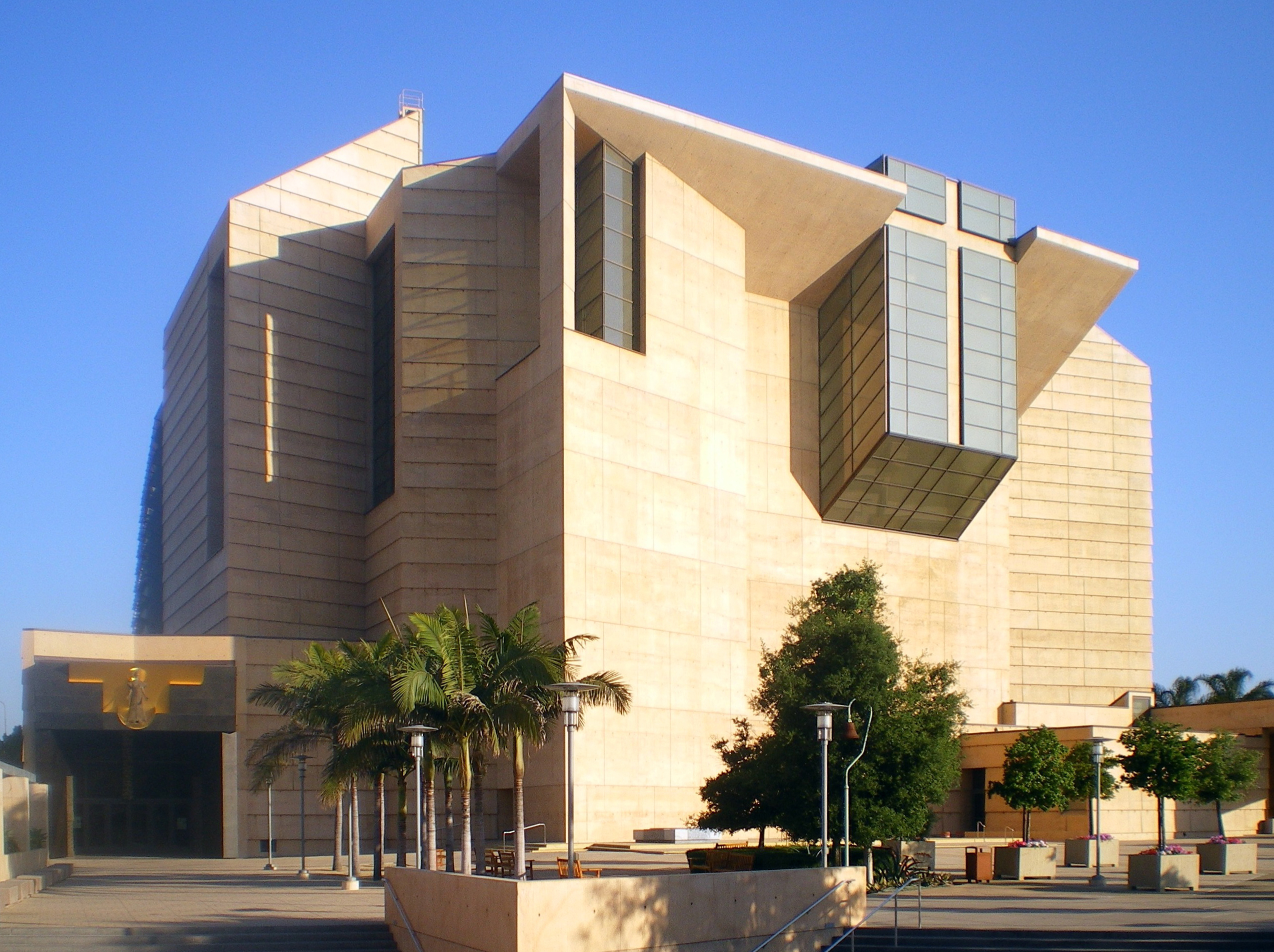 Cathedral of Our Lady of Angels (from plaza), Los Angeles